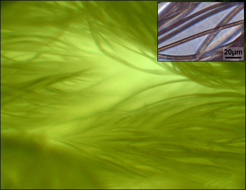 micrograph of a so called microfiber cloth.